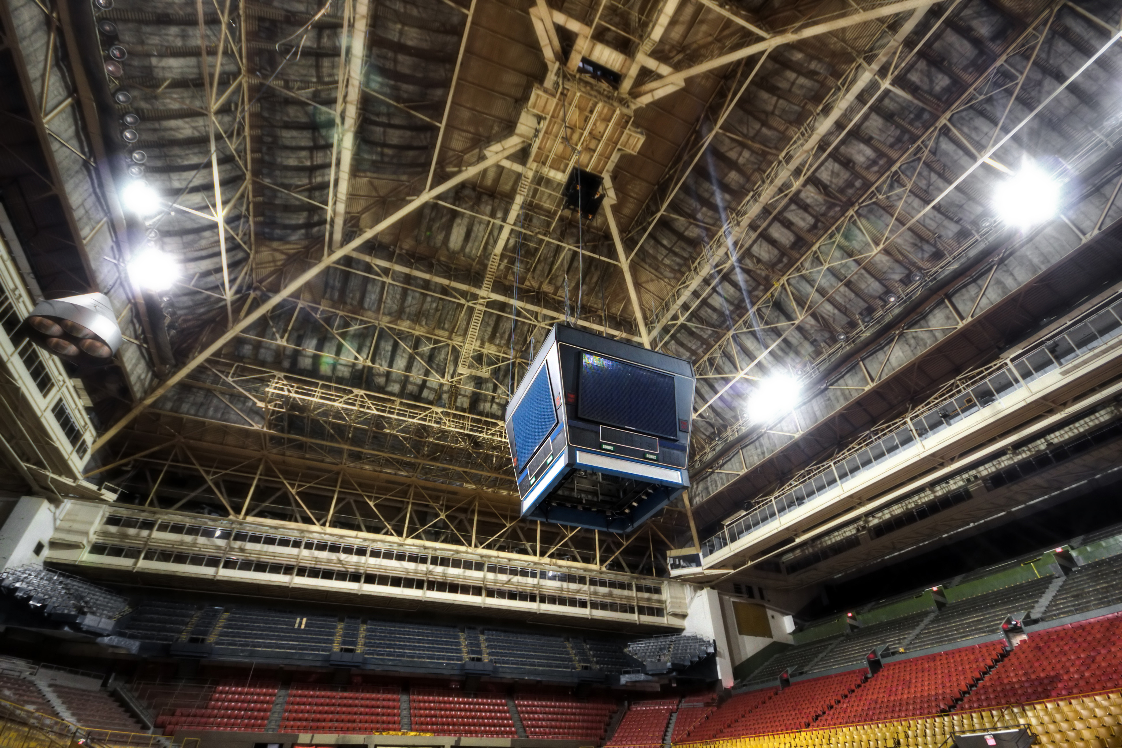 Maple Leaf Gardens, a former hockey arena in Toronto, Canada.